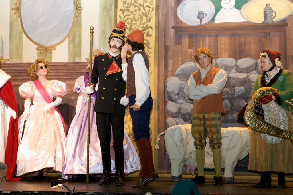 Into the Woods 1987 Tony Award-winning Broadway musical "Into the Woods" with lyrics by Stephen Sondheim and book by James Lapine.